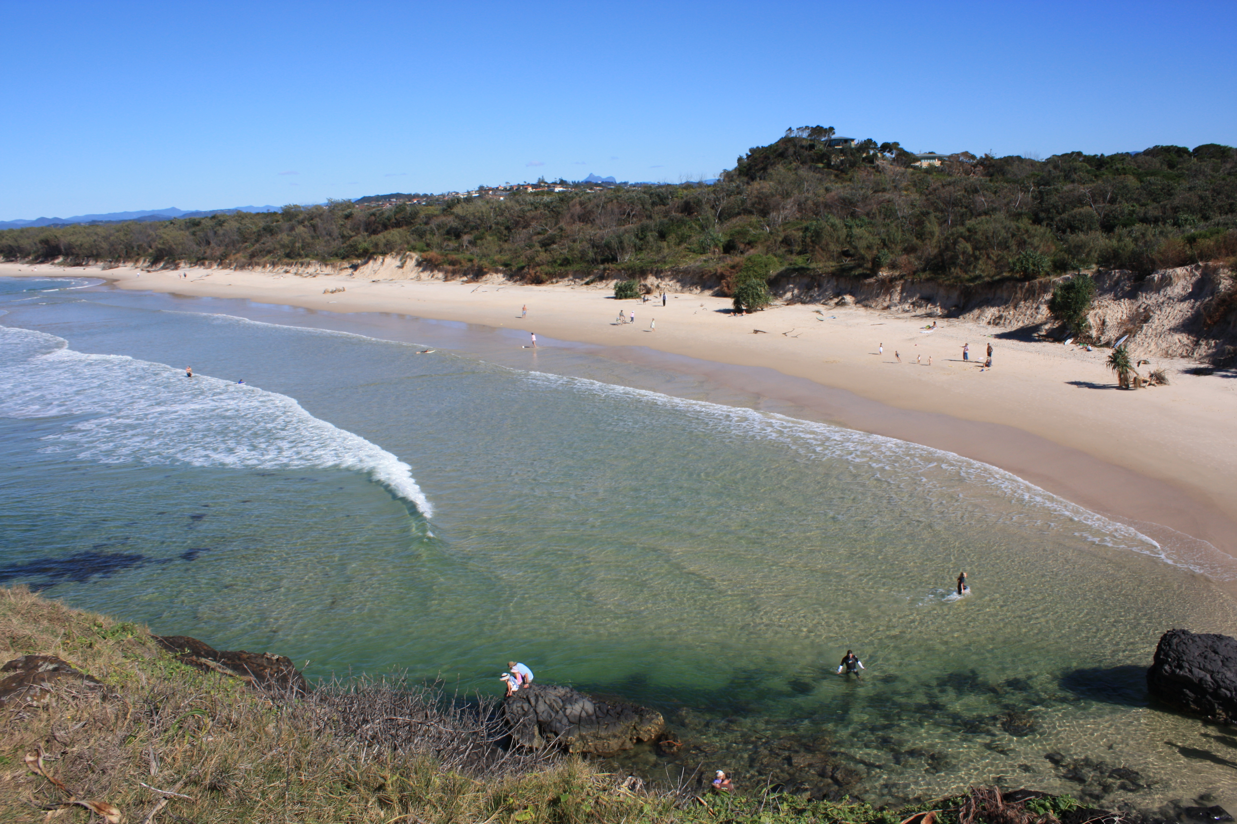 Dreamtime at Fingal